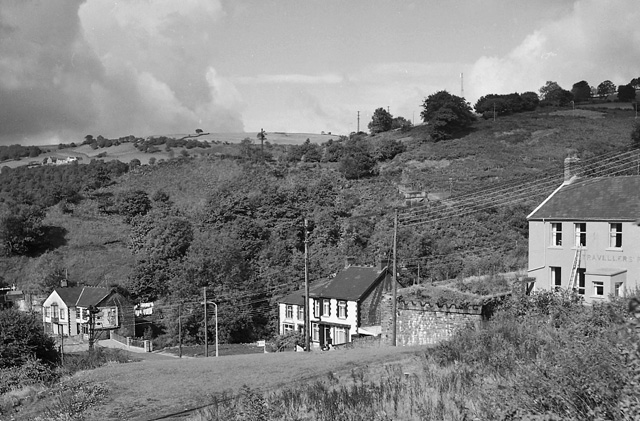 Site of Aberbargoed Station. View westward across Rhymney Valley. Station was in foreground, on ex-Great Western (Rhymney Rly.) 'Old Rumney' line, (Newport) - Bassaleg Junction - Risca - New Tredegar - Rhymney. The station was closed completely along with the line on 31/12/62 (in 1930 beyond New Tredegar).